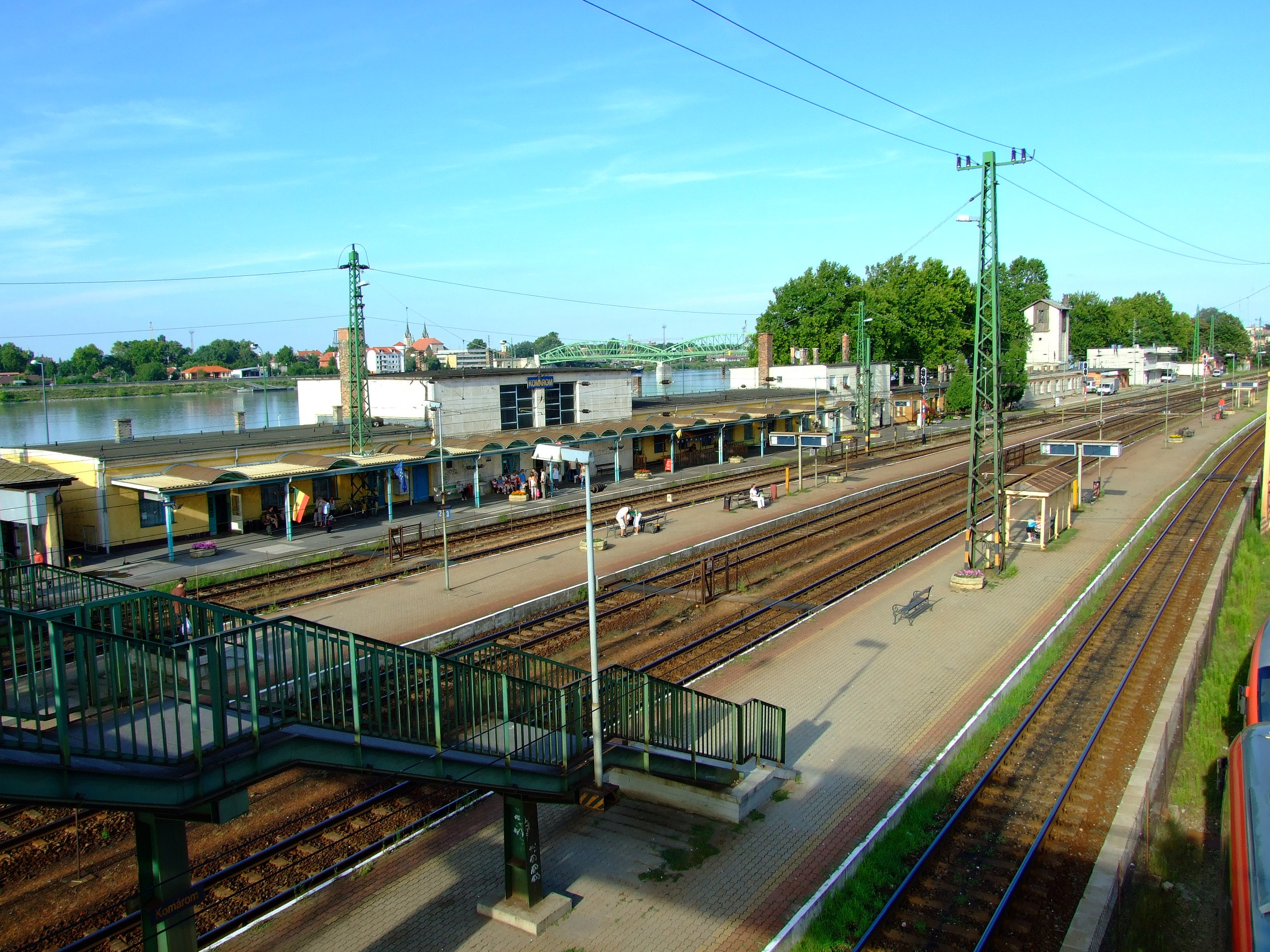 Train station in Komárom, Komárom-Esztergom comitat, HUhelp